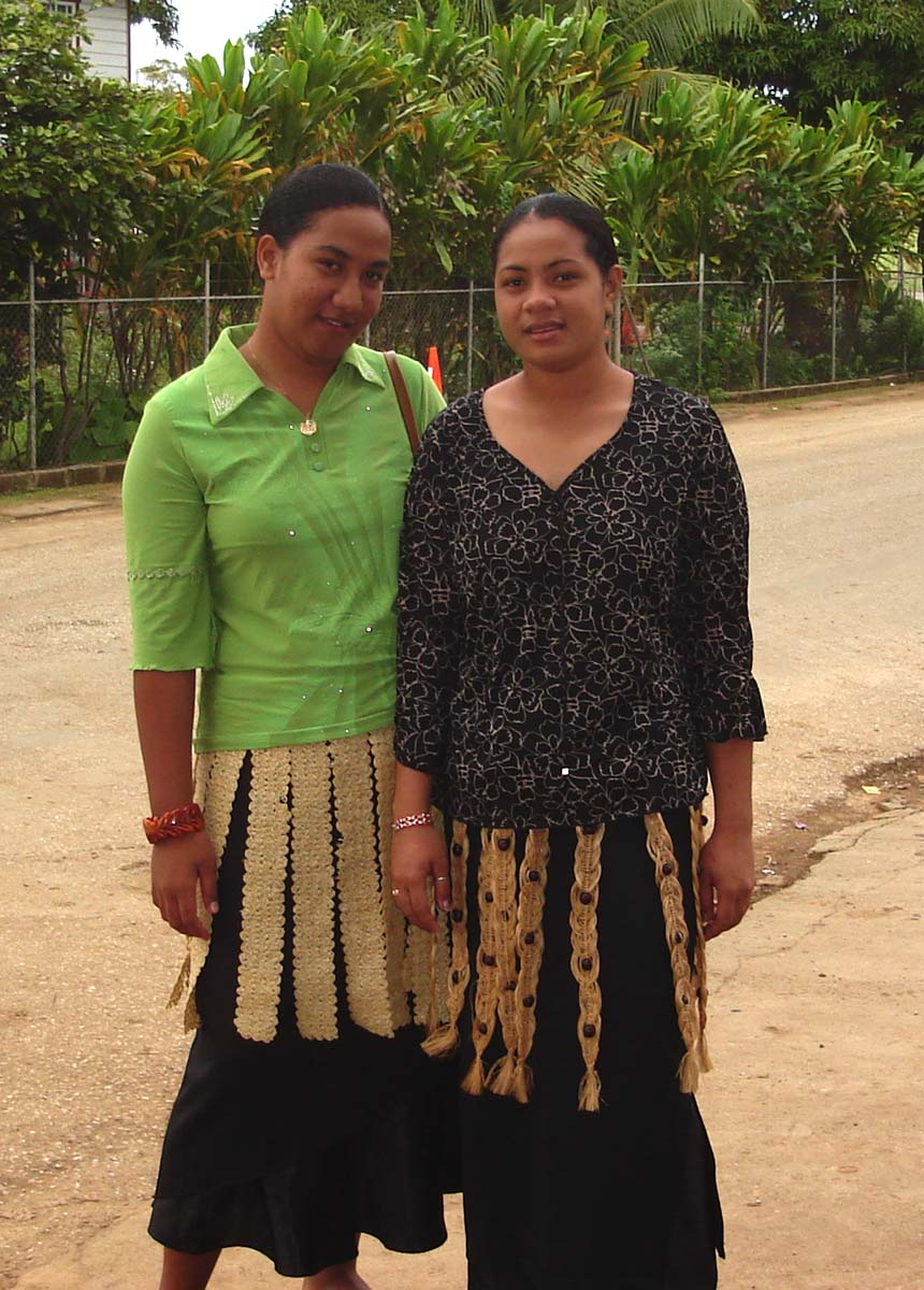 Two young, Tongan girls dressed on their best with a kiekie